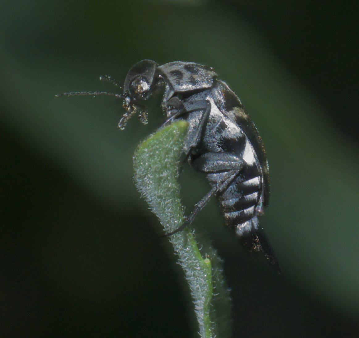 Hoshihananomia octopunctata, Family: Tumbling Flower Beetles, ID Confidence: 98